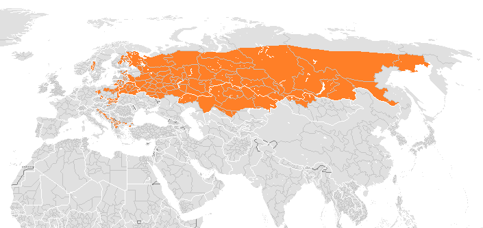 Updated range of grey wolves in Eurasia.